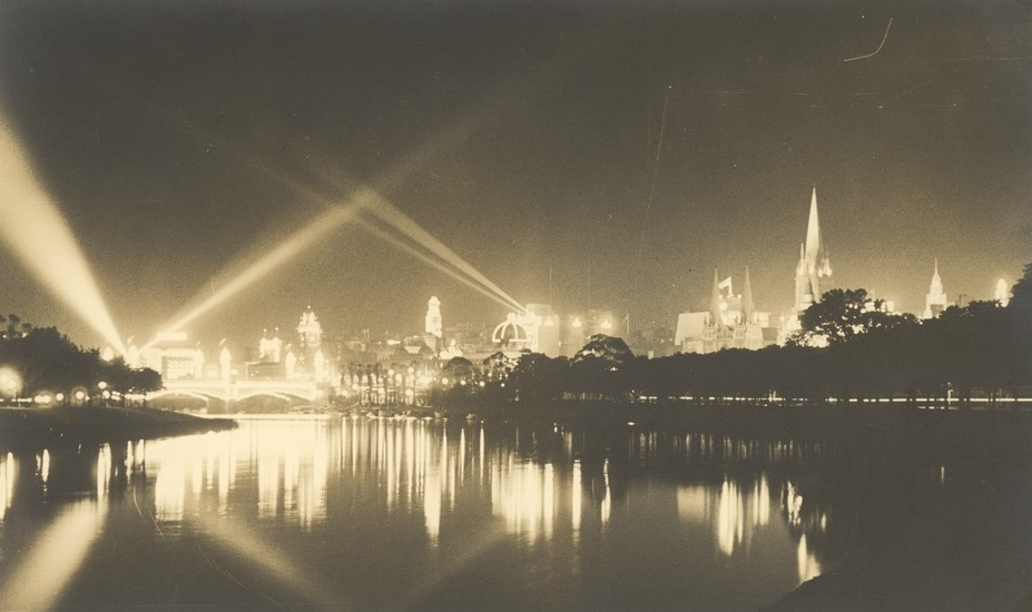 City skyline from the Yarra River during the Melbourne centenary celebrations